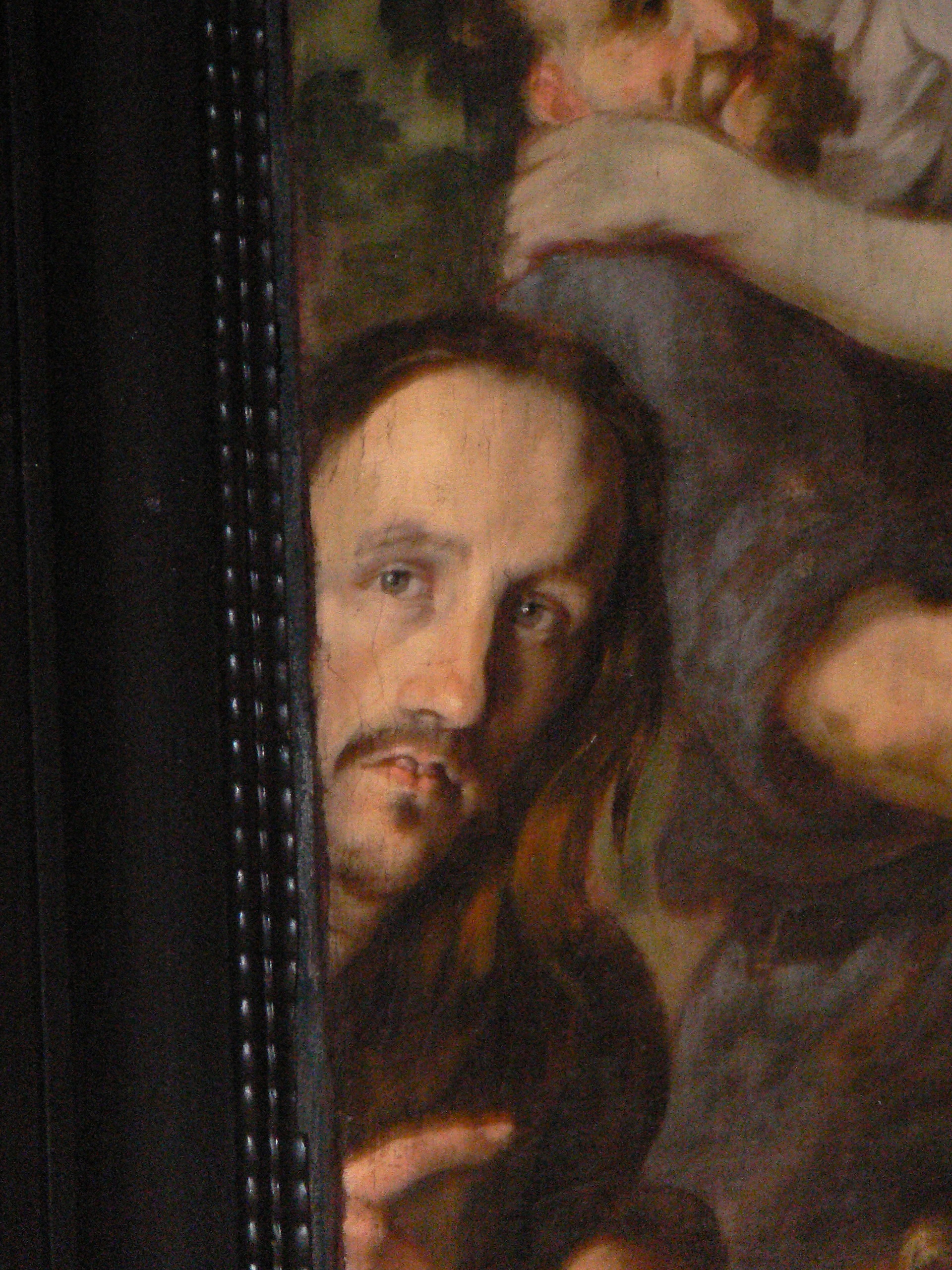 St.Michael parish church in Mondsee ( Upper Austria ). Altar of Saint Wolfgang ( 1679-1681 ) - Altar painting by C.P. List showing Saint Wolfgang at Mondsee as patron of ill people - Detail: Probably portrait of the baroque sculptor Meinrad Guggenbichler.